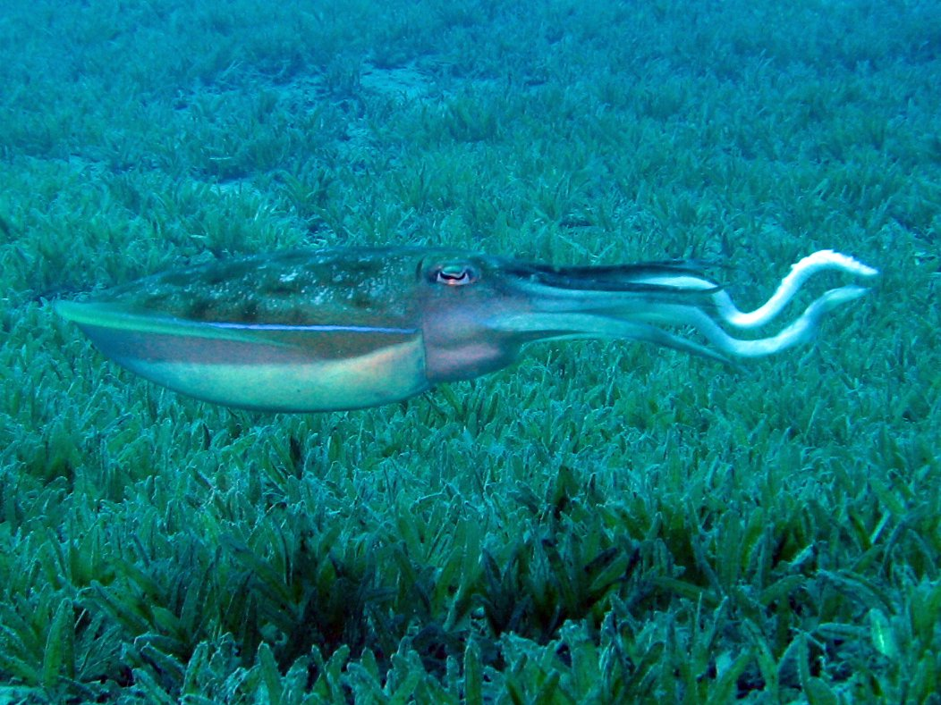 A pharaoh cuttlefish (Sepia pharaonis) in Egypt